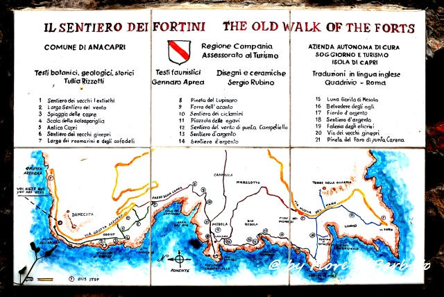 Plaque of the forts